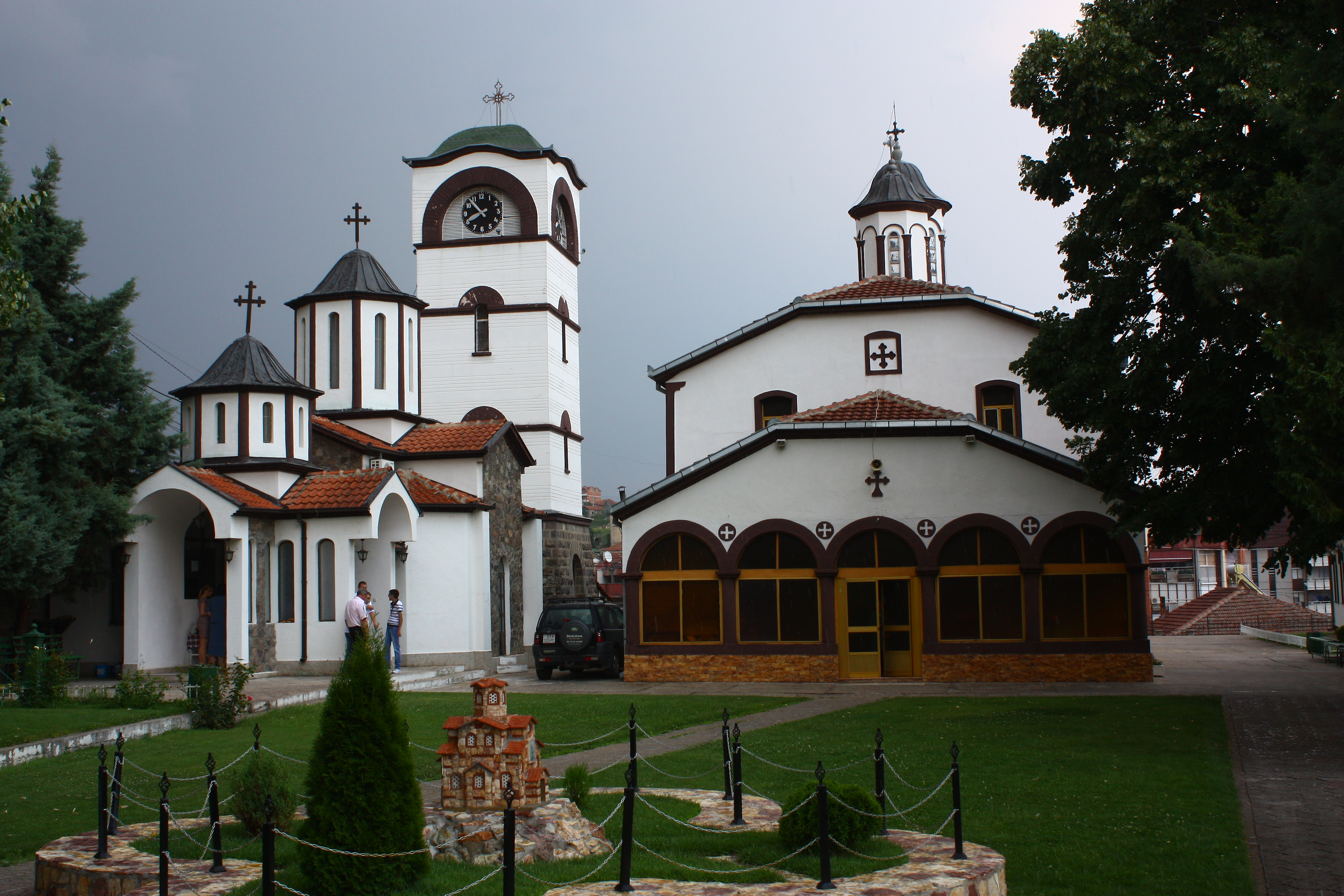 The orthodox church St. George in Kočani, Macedonia